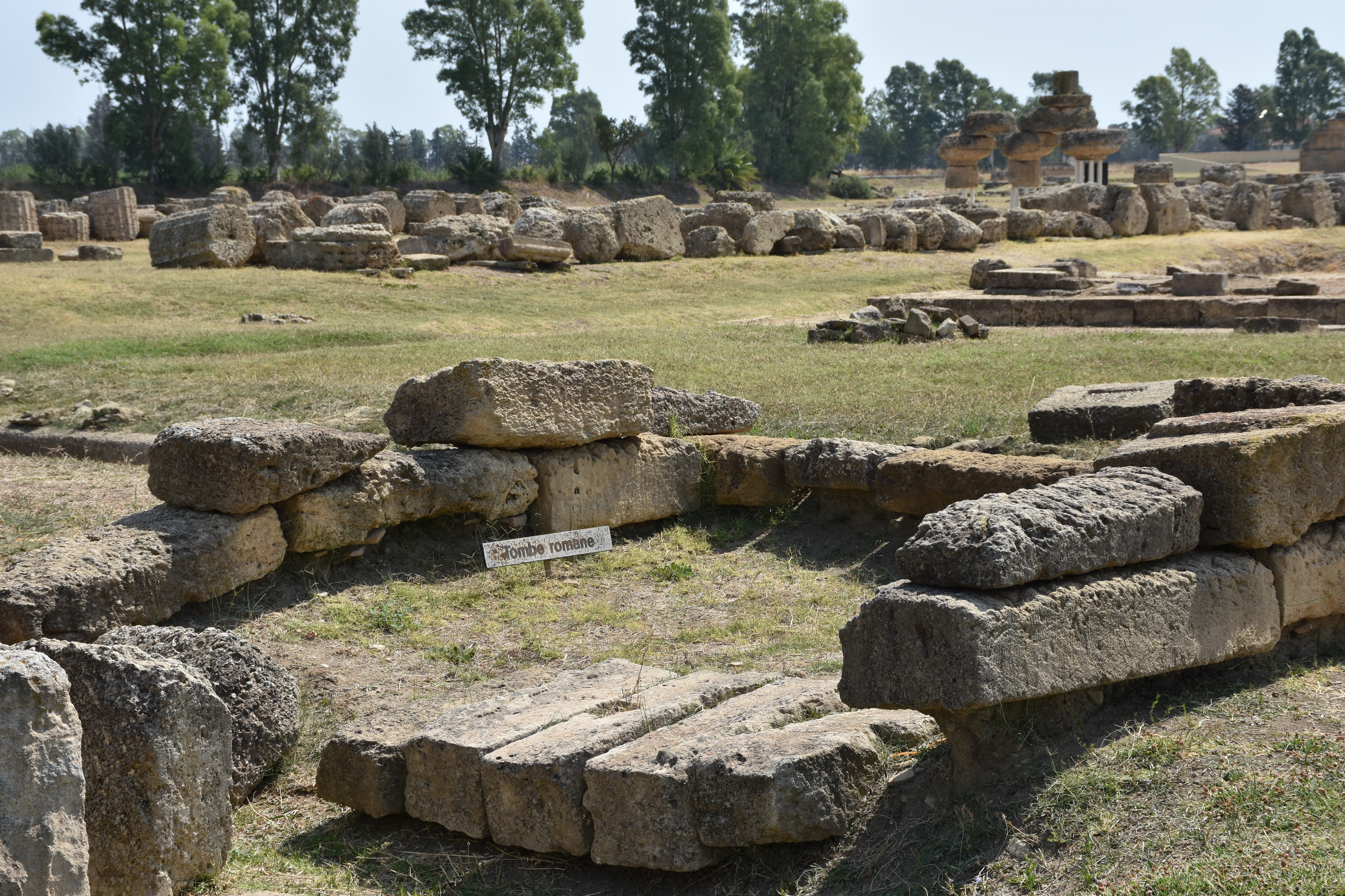 This is a photo of a monument which is part of cultural heritage of Italy.